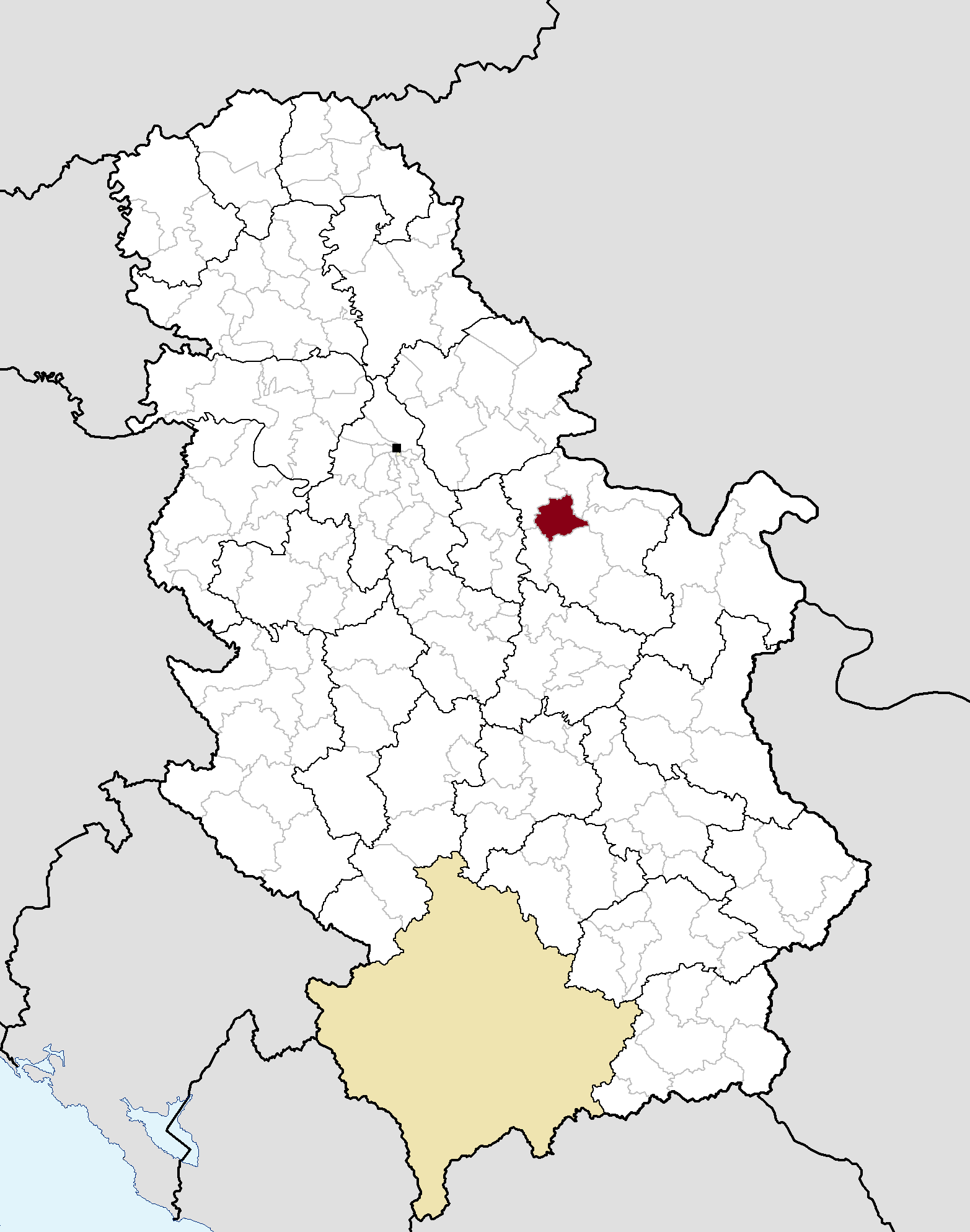 Municipal location in Serbia